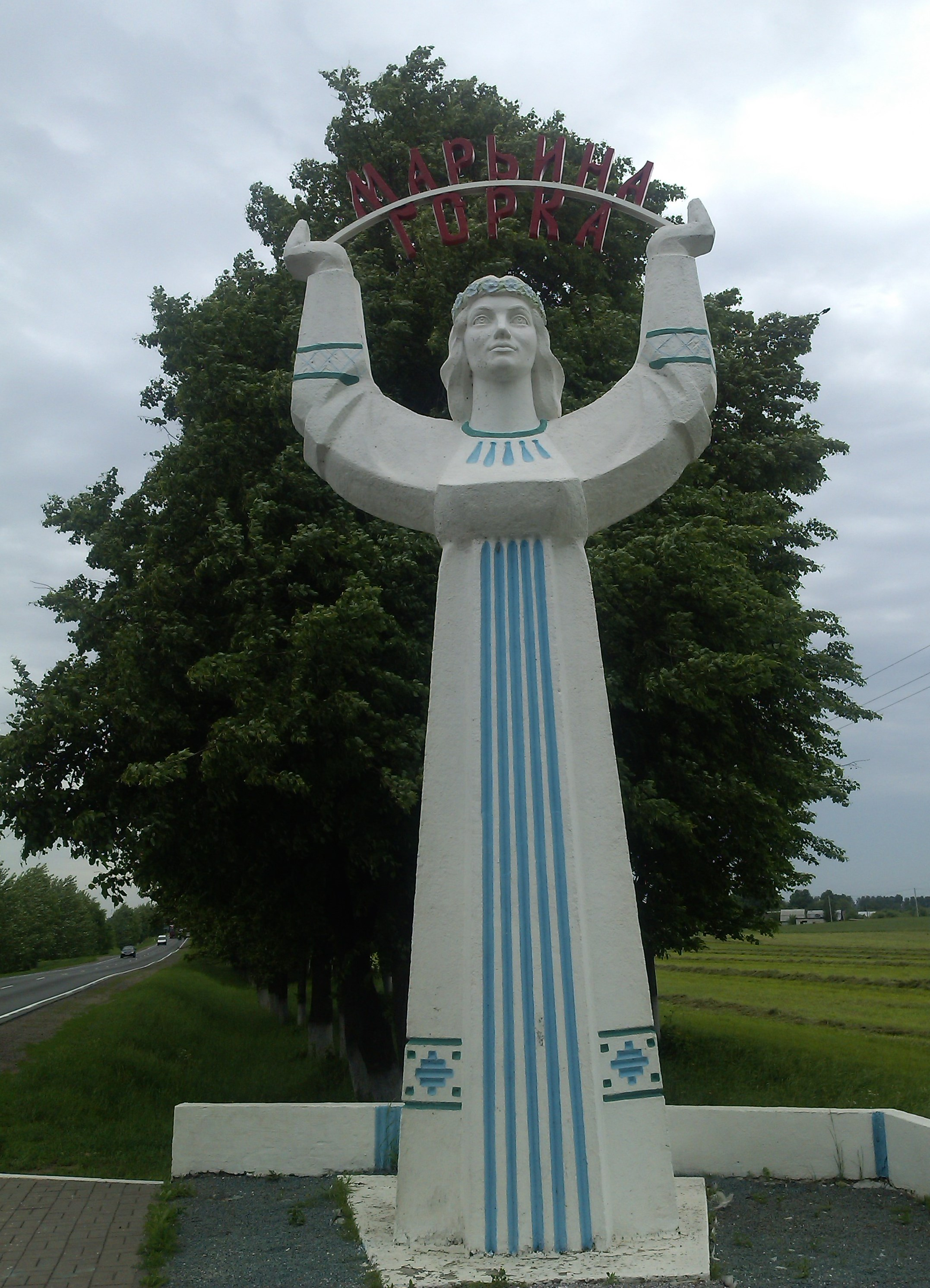 Monument of Maria - symbol of Mar`ina Horka